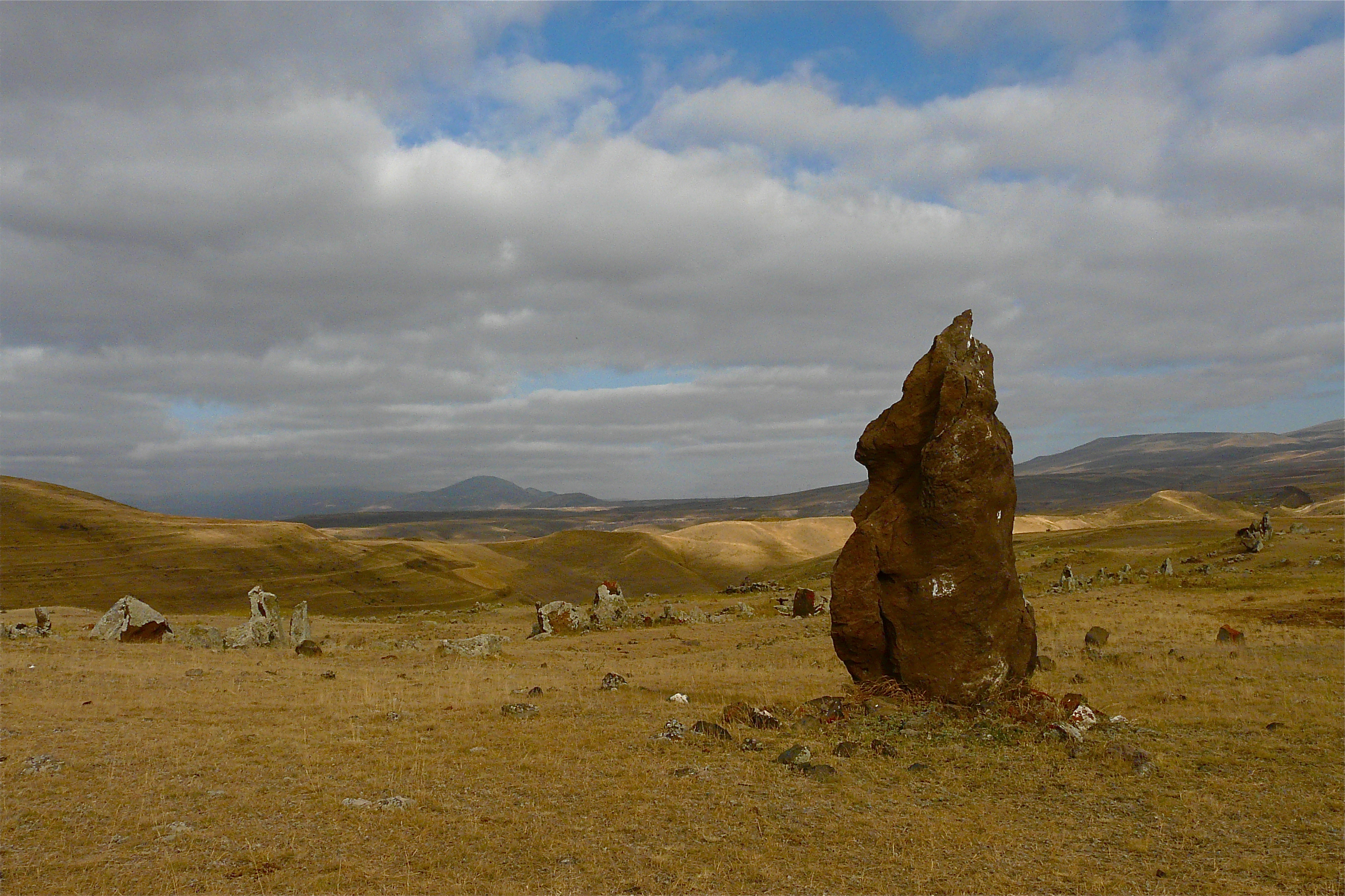 One of the standing stones that is part of the Zorats Karer Stone Age henge in Armenia